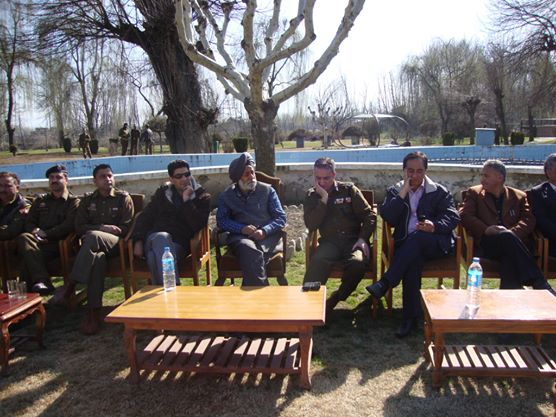 Anantnag